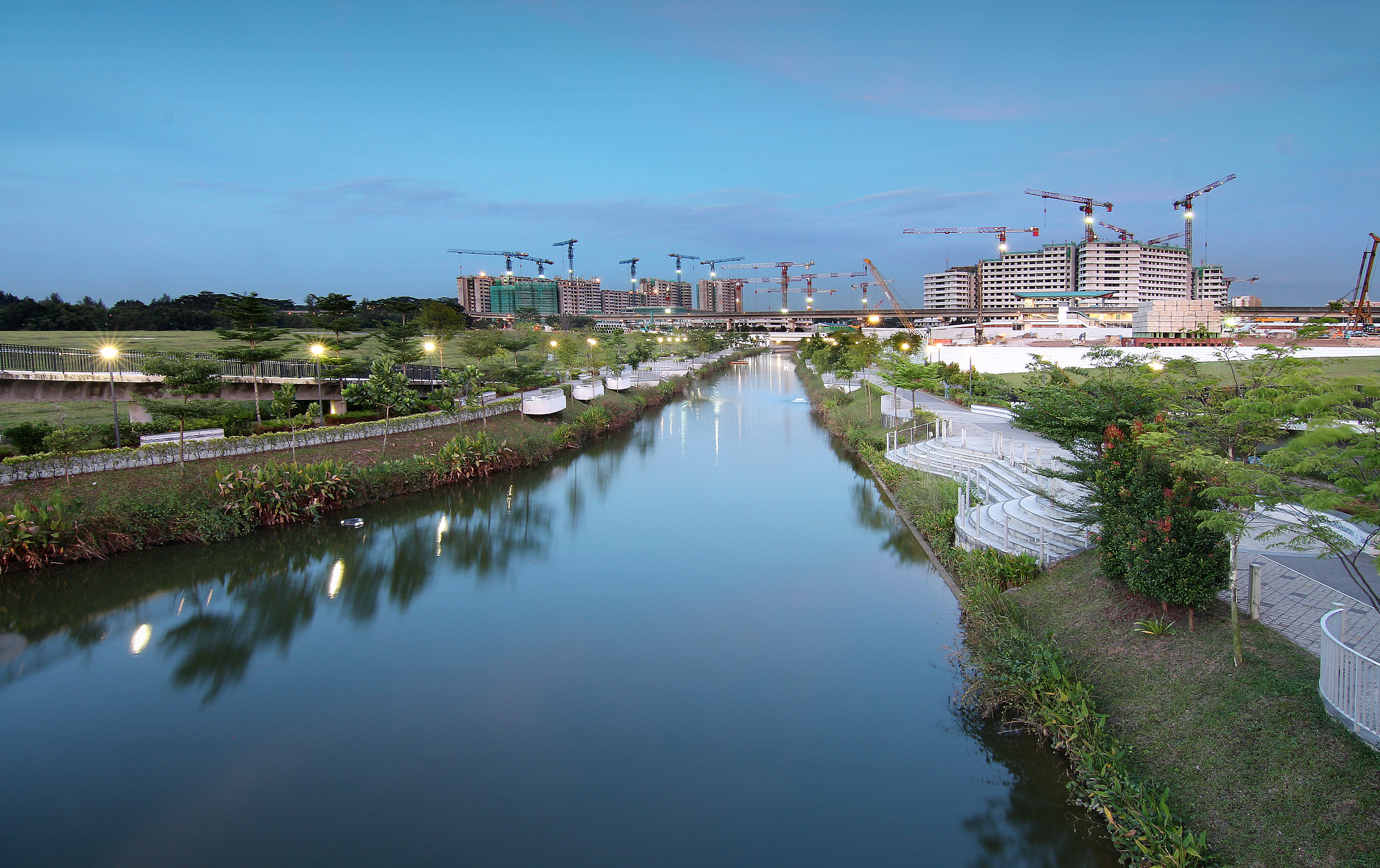 Should look pretty nice once the property developments have been completed The scene was a bit contrasty. DRI used